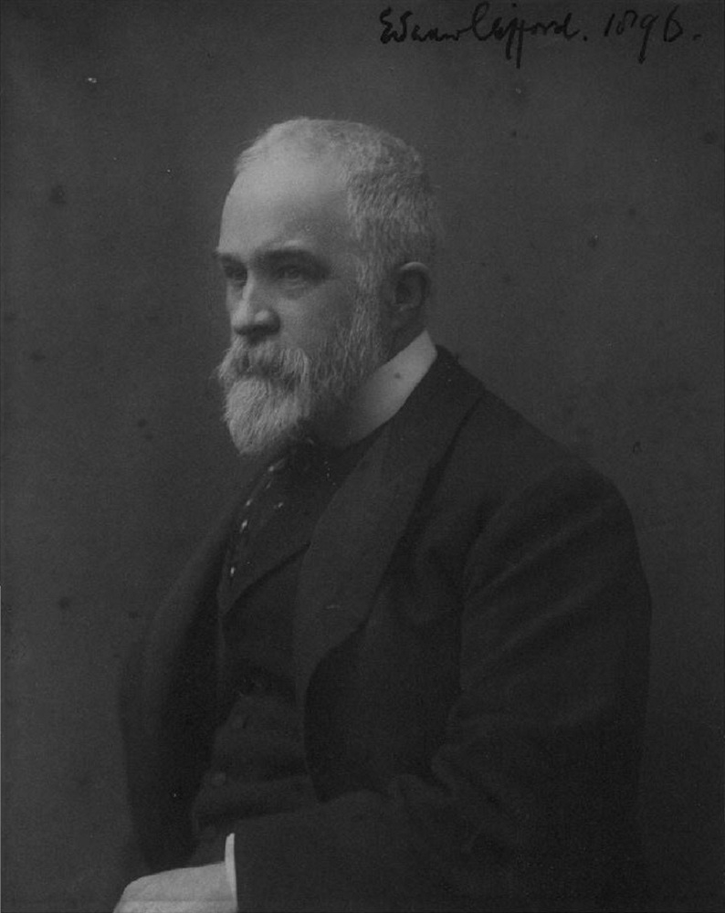 Edward Clifford (1844-1907) was an English artist and author born in Bristol. He is best known for his portraits in watercolor, and was associated with the Aesthetic Movement in late 19th-century England.